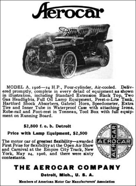 The Aerocar Company - Detroit, Michigan - 1906